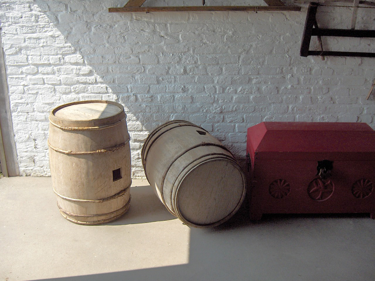 barrels for salted herring; c. 1465; at the archeological site of Walraversijde, near Oostende, Belgium